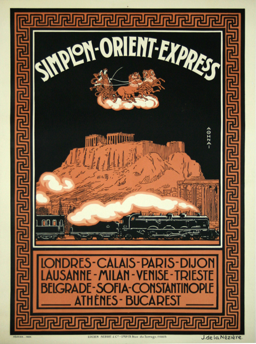 Poster Simplon-Orient-Express Ἀθῆναι